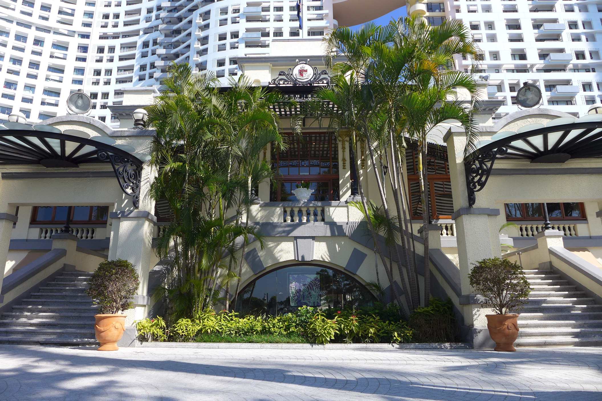 The Repulse Bay Shopping Arcade